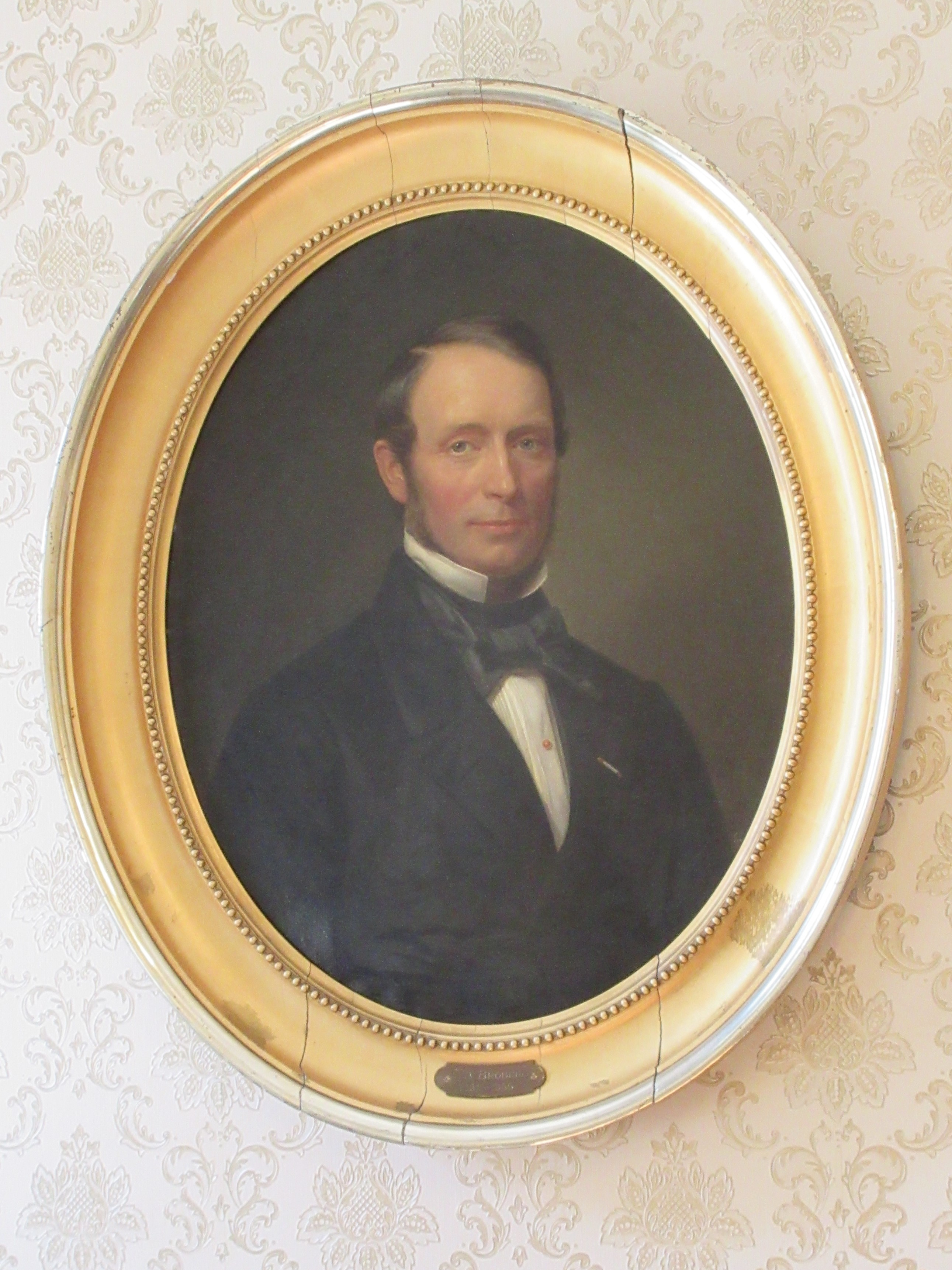 Painting of C. A. Broberg in Heerings Gård in Copenhagen, Denmark